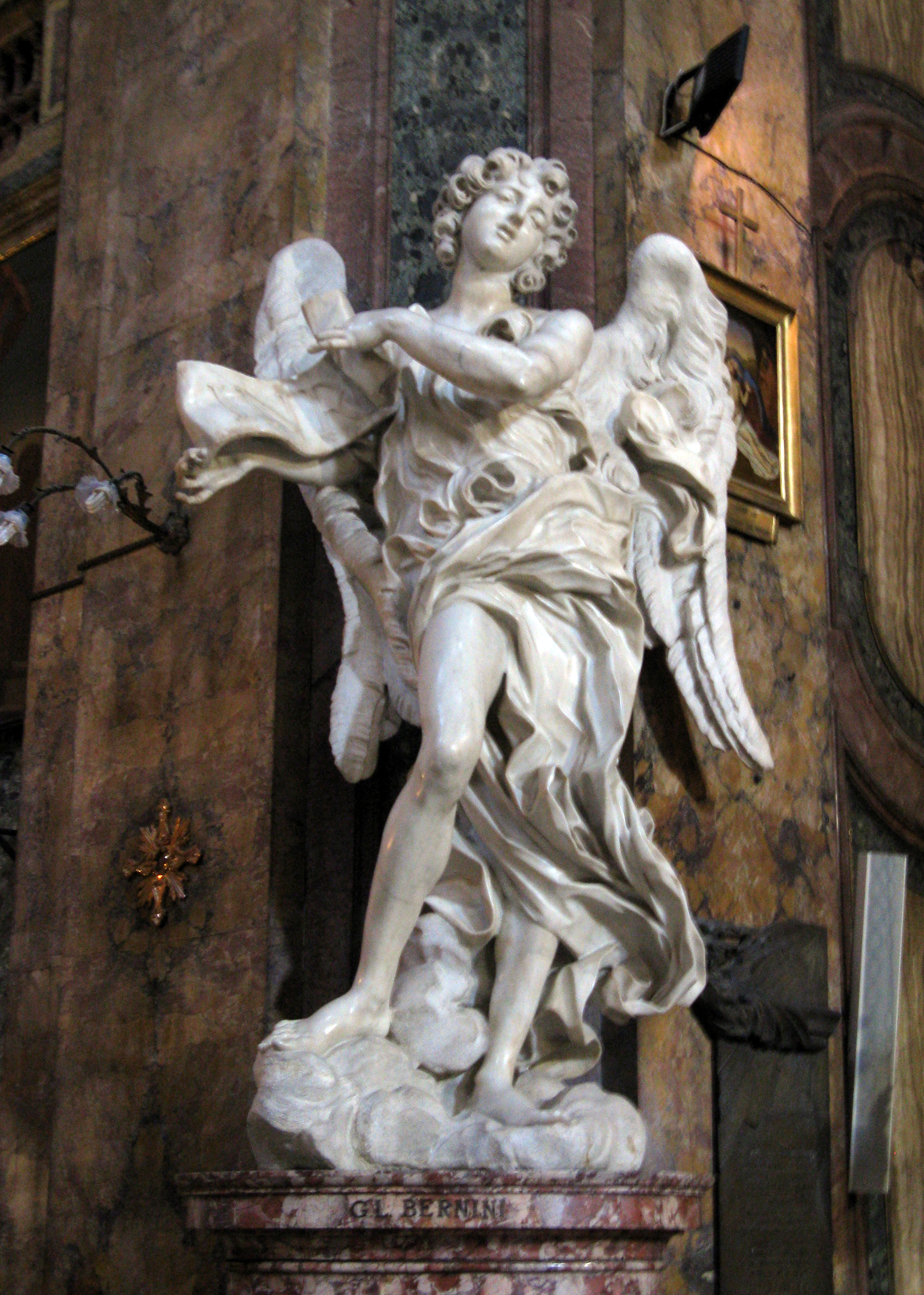 Angel with the Superscription by Gian Lorenzo Bernini, Sant'Andrea delle Fratte, Rome